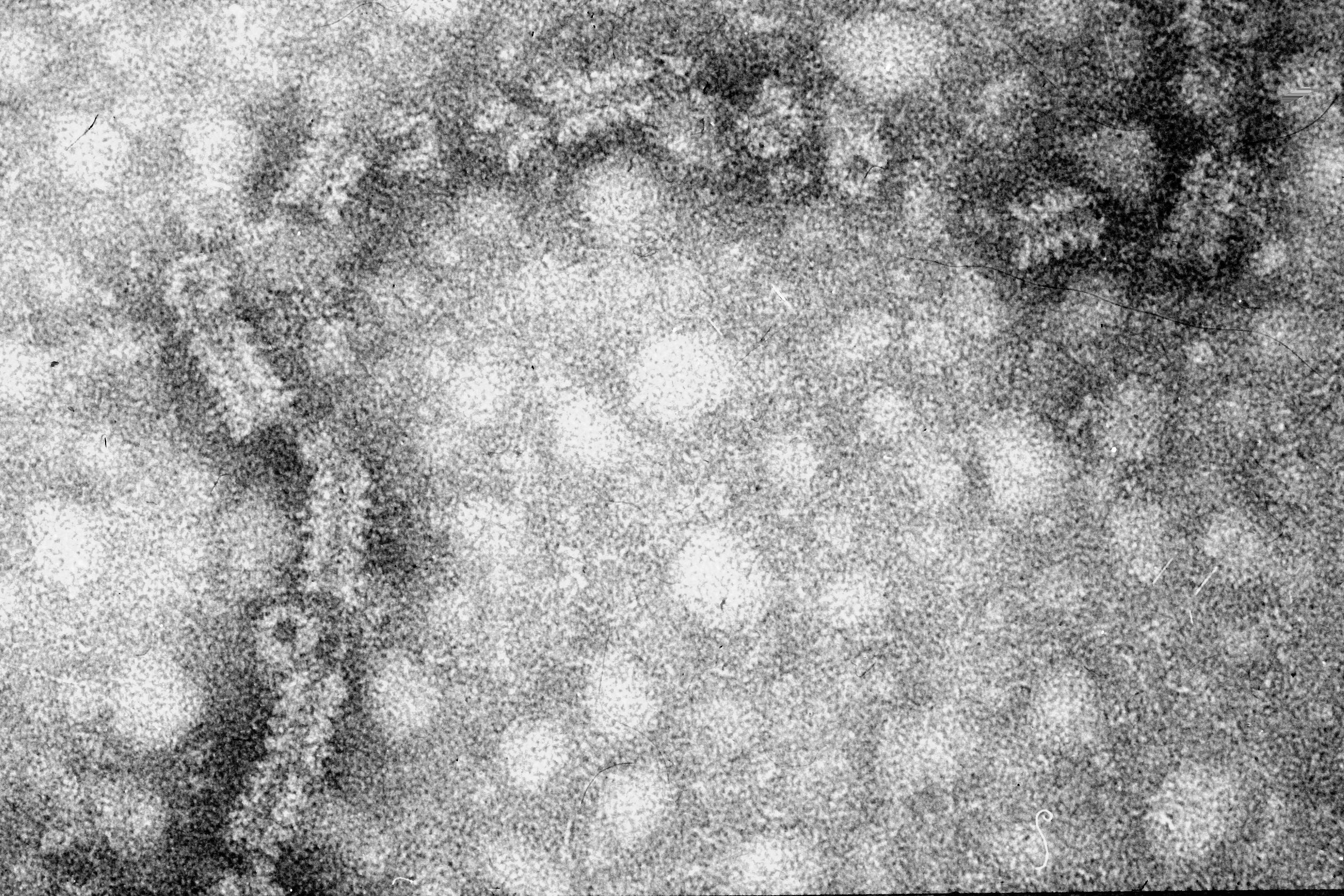 Electron micrograph of t he ultra-structure of mumps virus